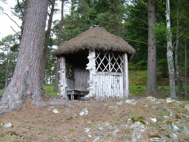 Fog House. Situated above Invercauld House, this is on a woodland walk above the house over looking the park land below.